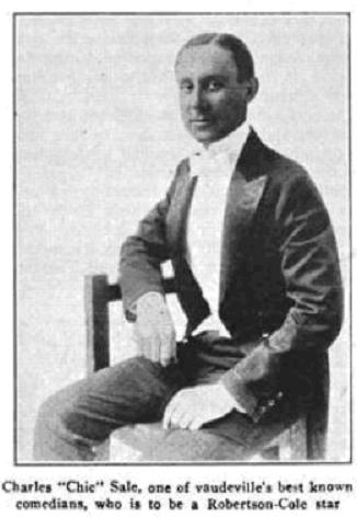 Charles "Chick" Sale circa 1919